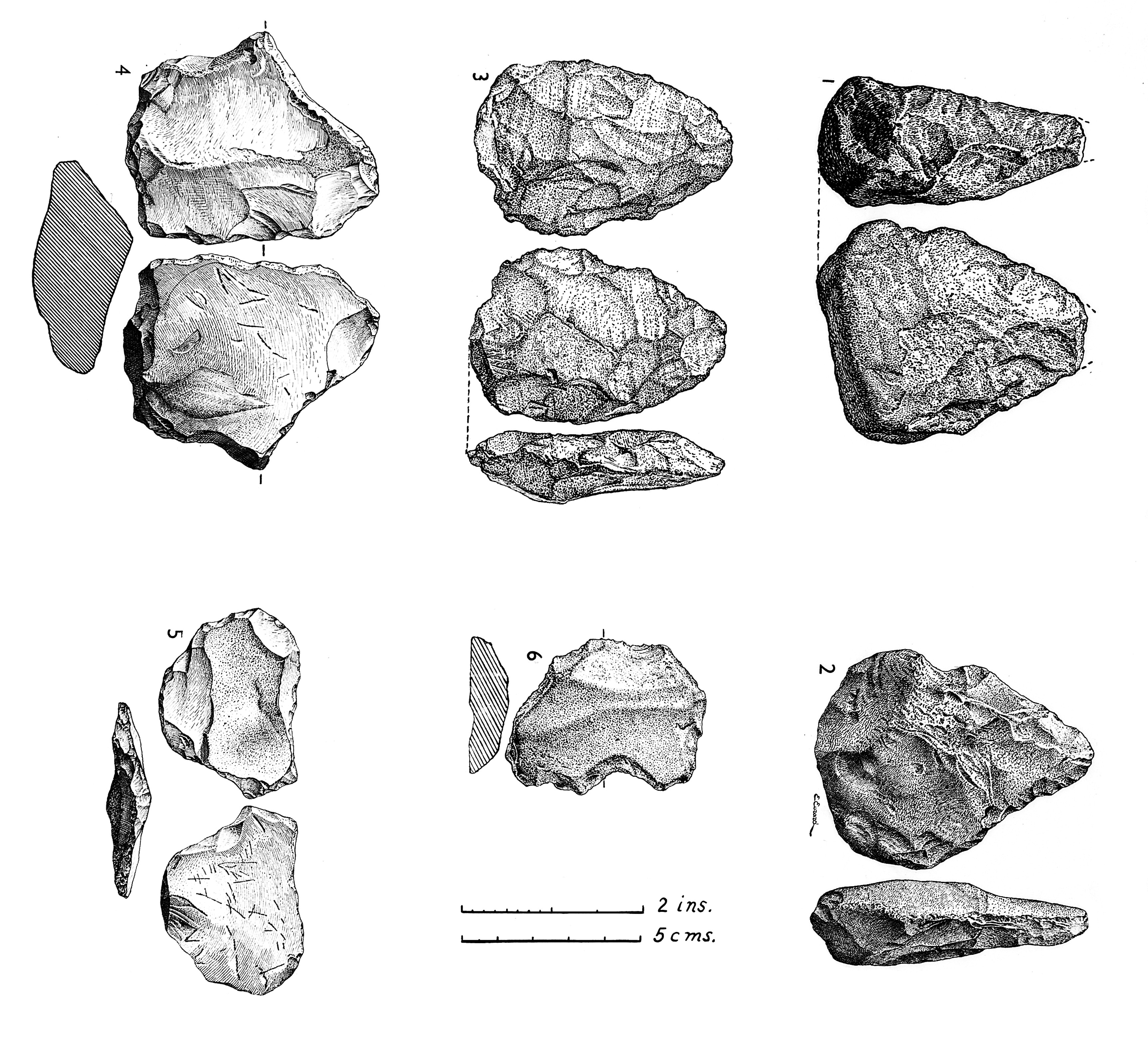 Paleoliths from gravel at Chapel Pill Farm, Abbotsleigh. Wellcome Images